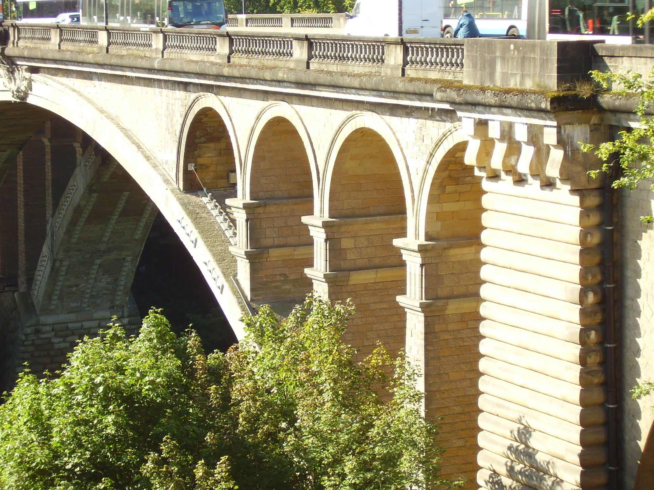 Adolphe bridge in Luxembourg city; 2007